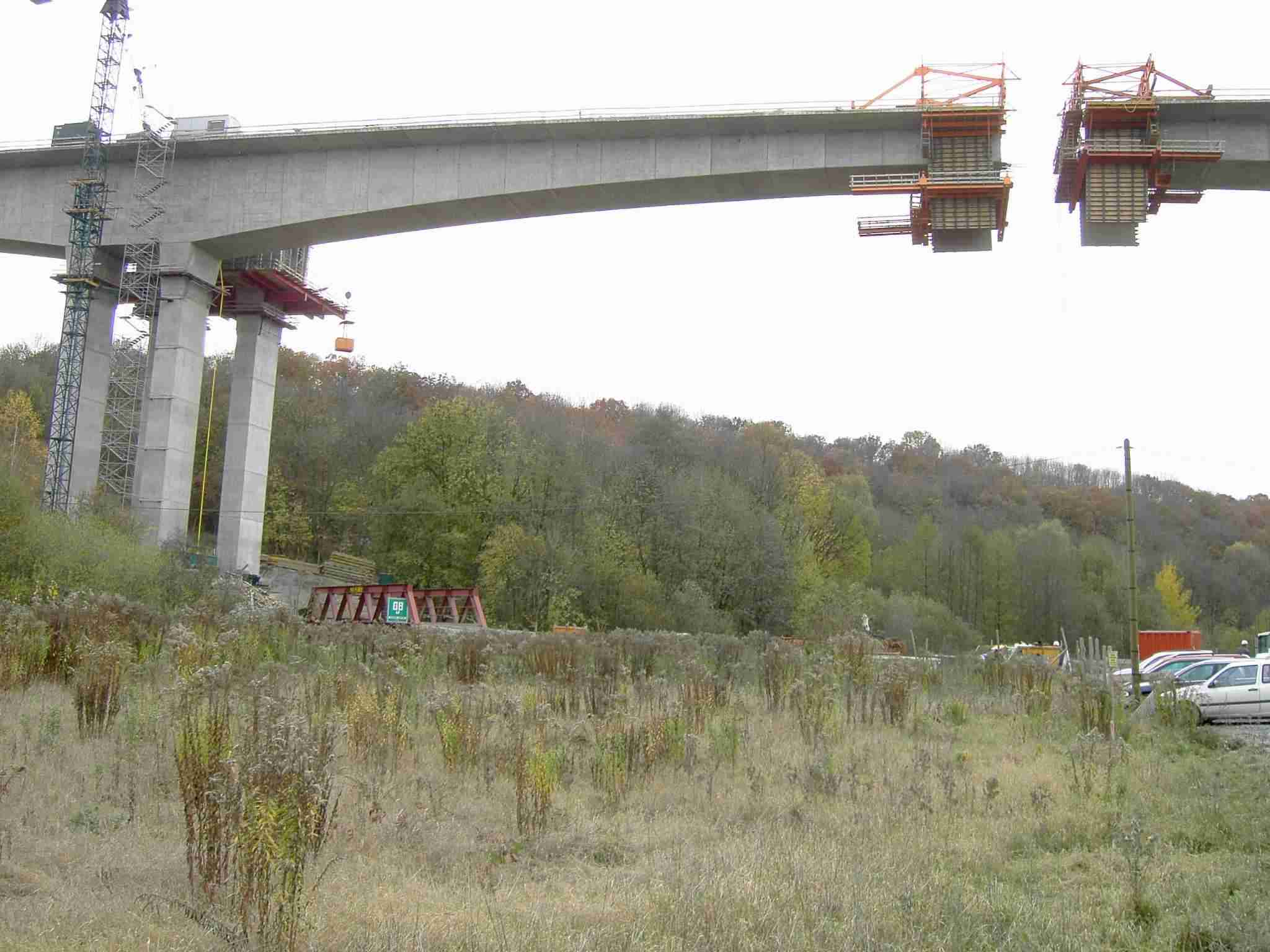 Weidatalbridge, travelling formwork